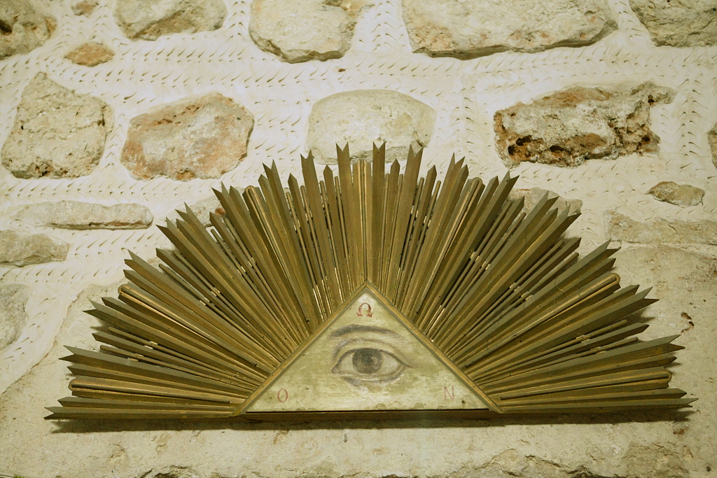 Valley of the Cross